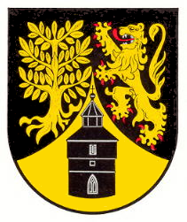 Coat of arms of Schmalenberg